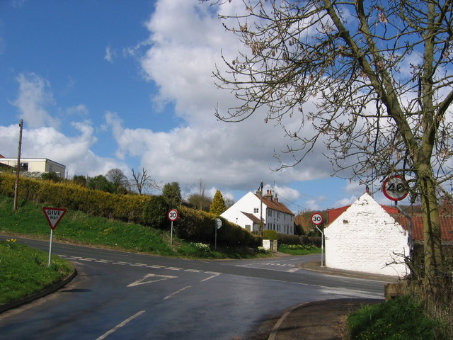 Boynton, East Riding of Yorkshire, England.Looking north across the B1253 which cuts EW through Boynton.